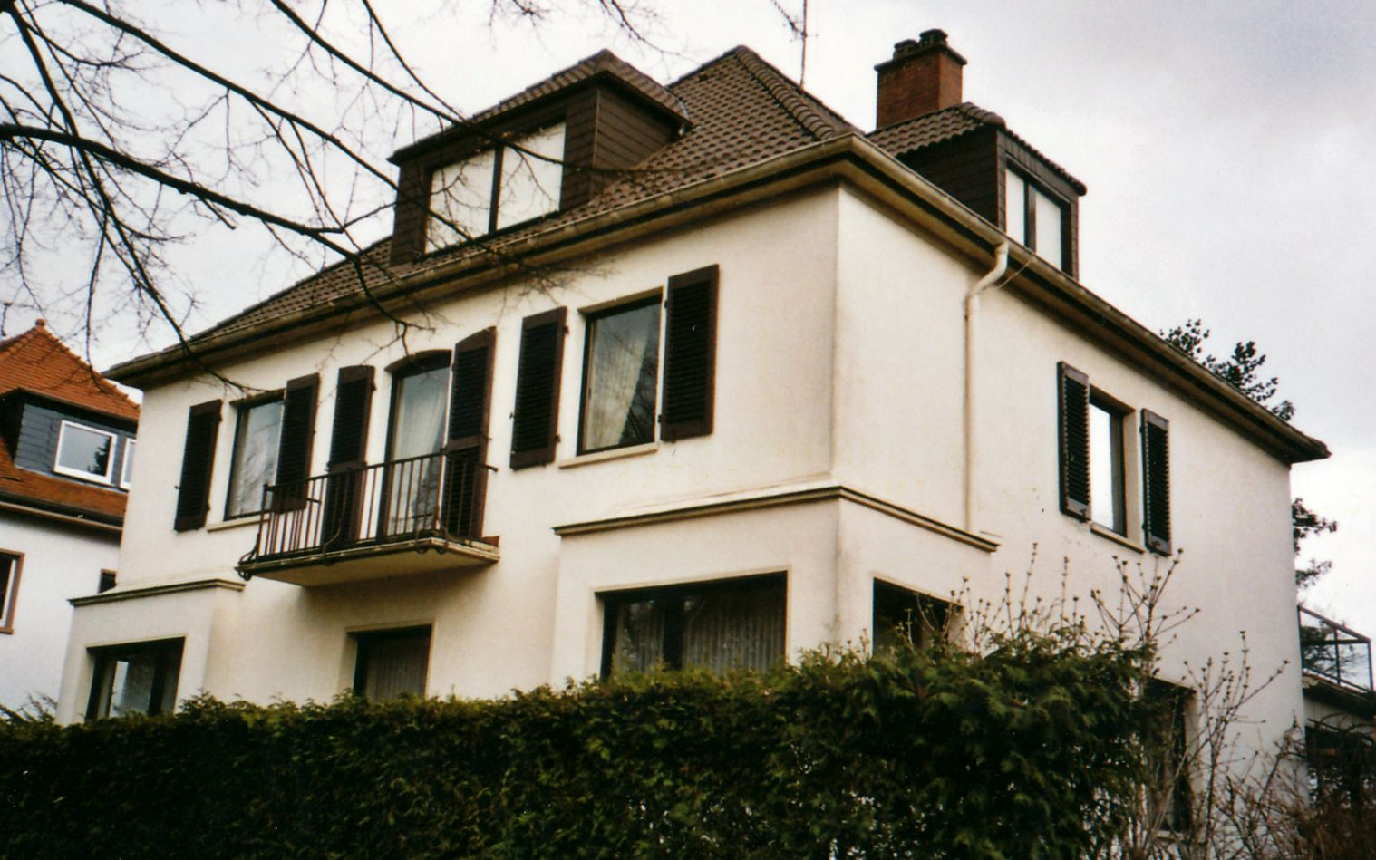 Goethestrasse 14, Bad Nauheim. The home of Elvis Presley when he was serving in W. Germany.